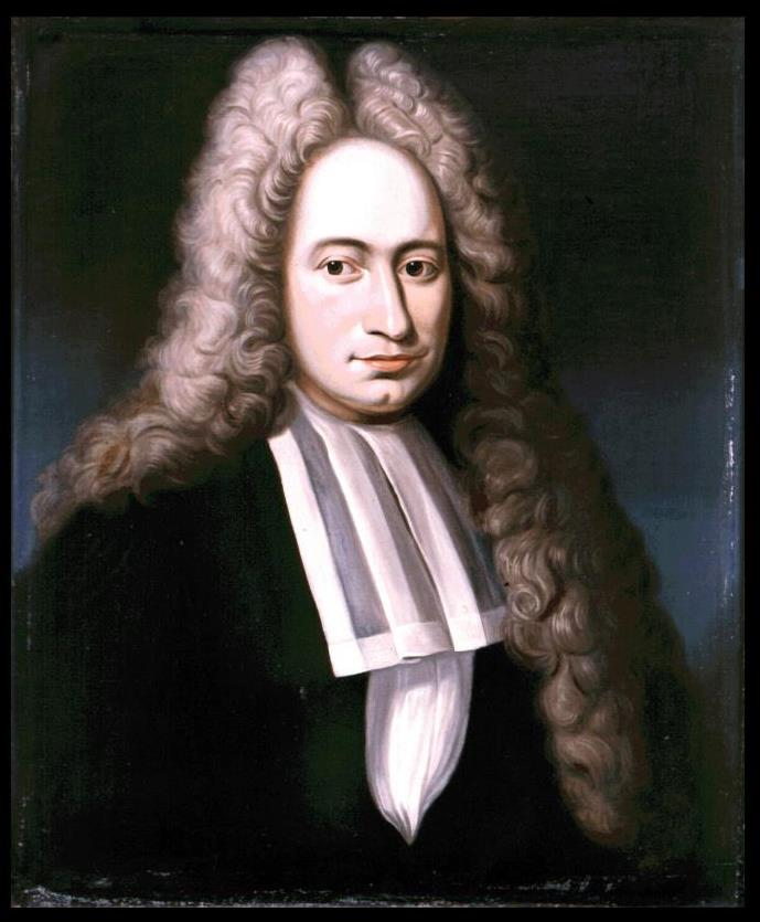 Arnold Drakenborch (1684-1748) Dutch classical scholar